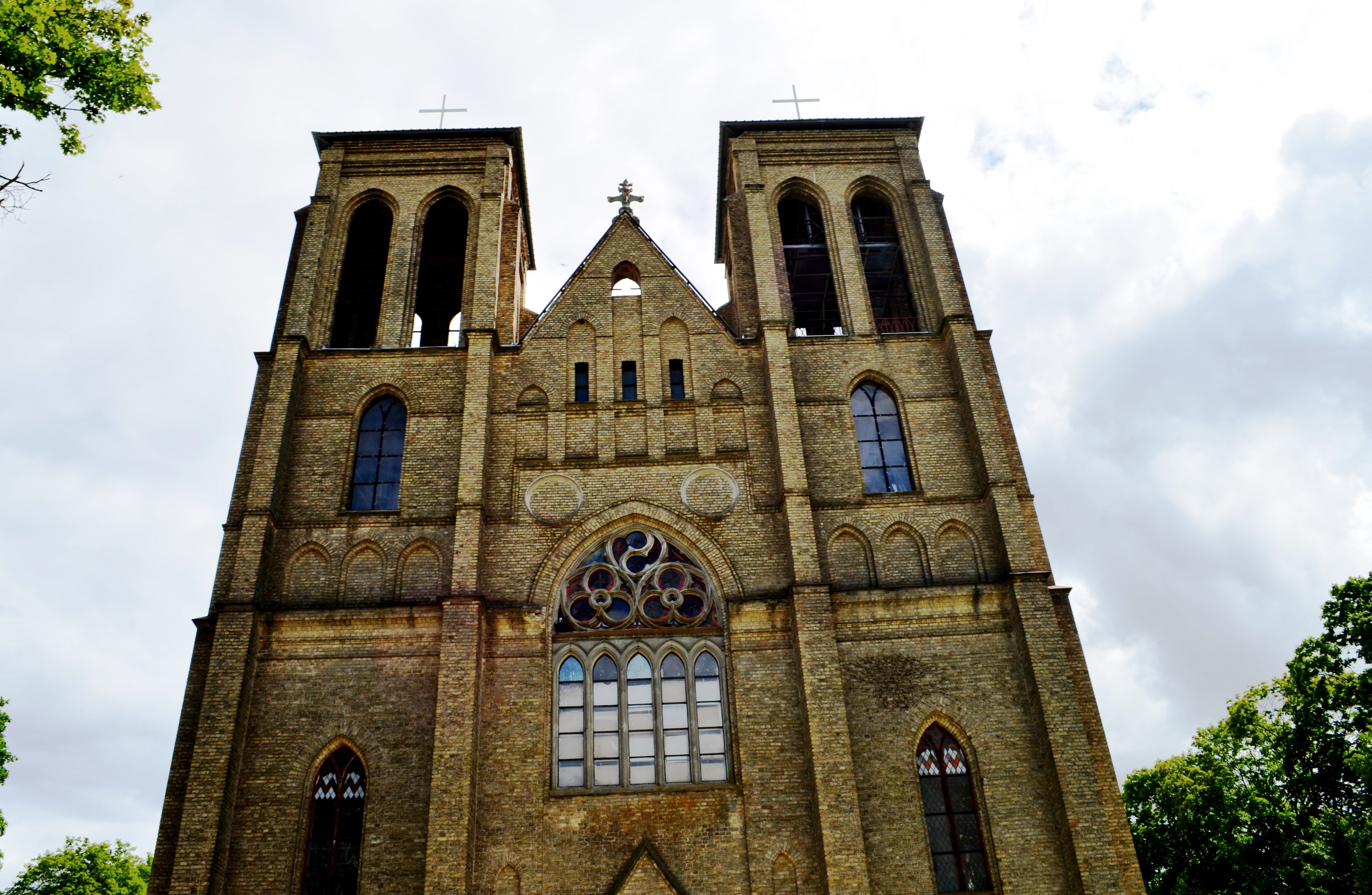 St Matthew church of Naujamiestis. Panevėžys district, Lithuania